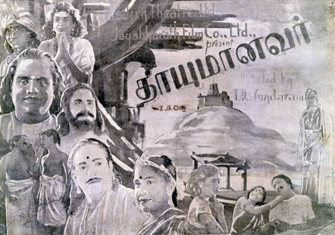 Advertising poster of 1938 Tamil-language film Thayumanavar